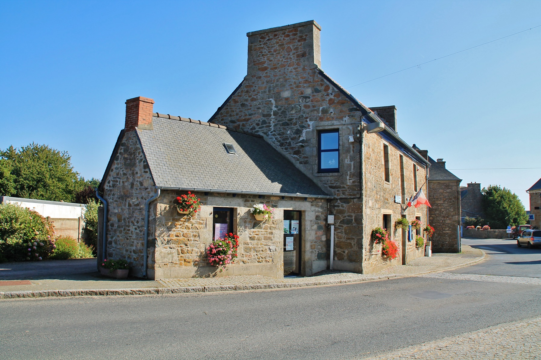 La Mairie